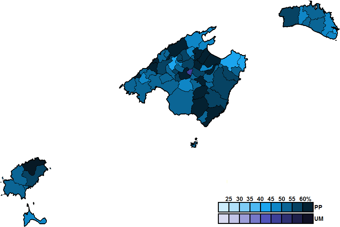 Balearic Islands Spanish Congress District 2004 General Election Municipal Vote Share